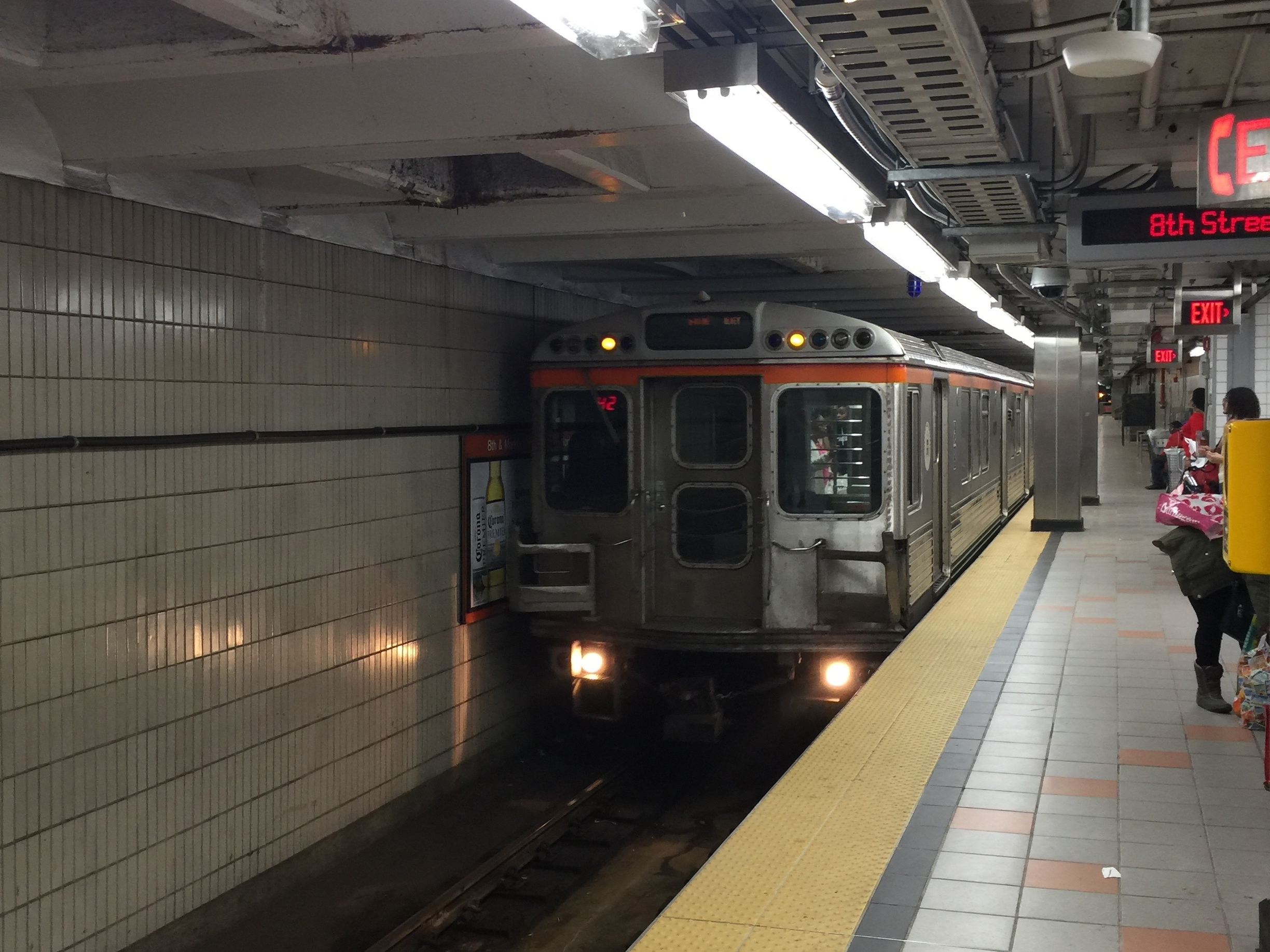 8 market